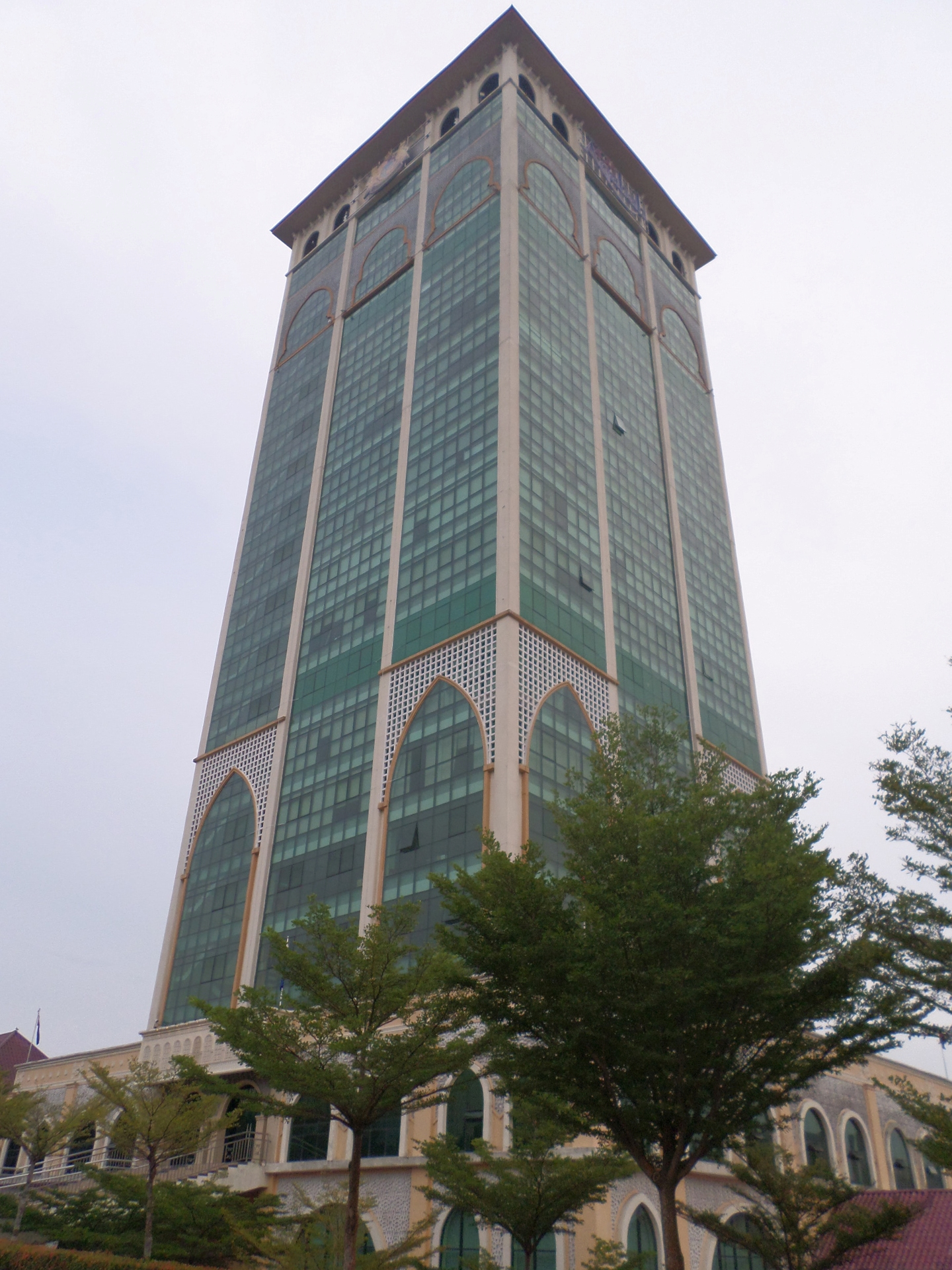 Aqabah Tower, Pasir Gudang, Johor Bahru, Johor, Malaysia